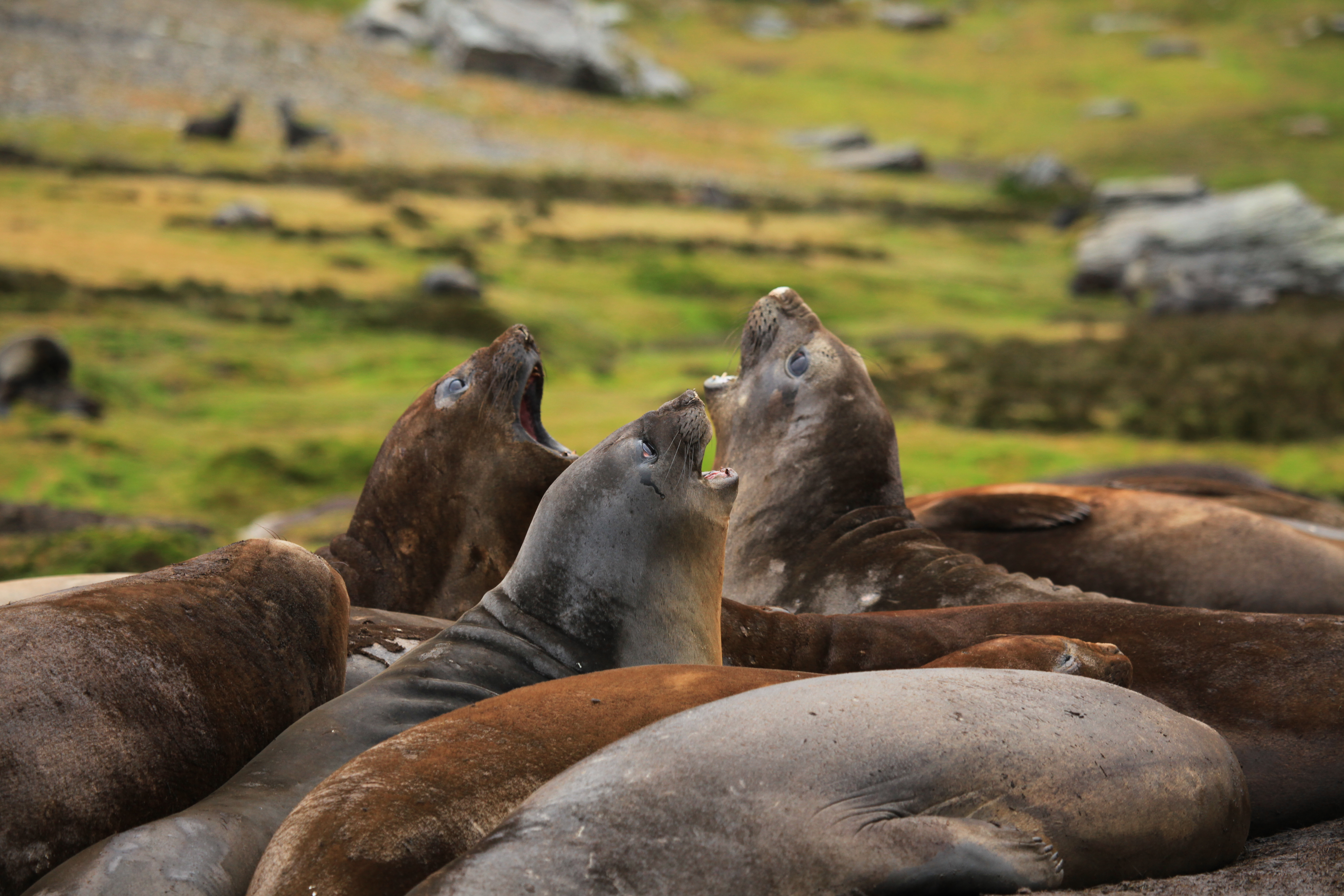 At Moltke Harbour, South Georgia.